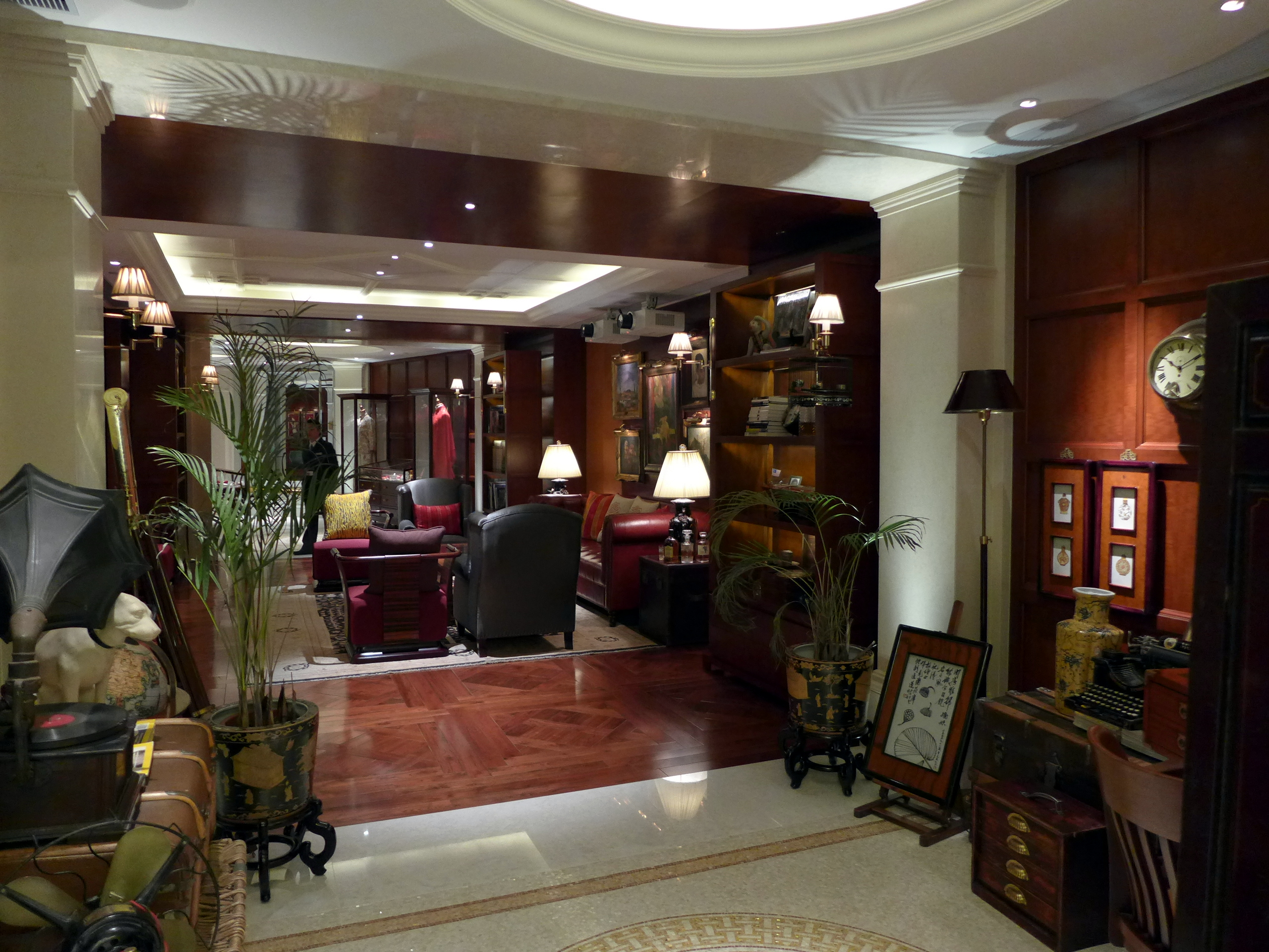 The Avenue Showflat Clubhouse Mockup